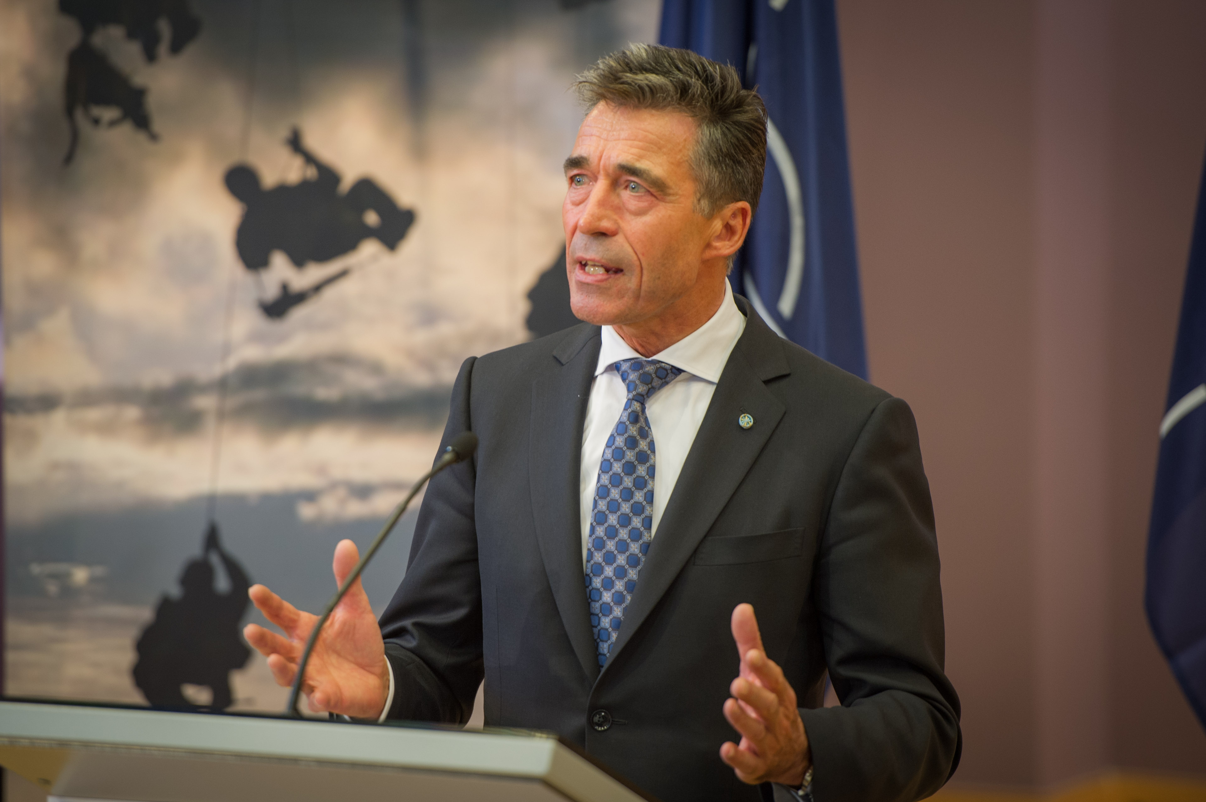 Secretary General of NATO - Anders Fogh Rasmussen during a visit to the Culture Center in Adazi/Latvia - Exercise Staedfast Jazz on the 6th Nov. 2013. (NATO photo by Sgt. Emily Langer/DEU Army)